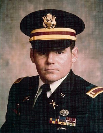 2nd Lieutenant Gary M. Rose at Fort Sill. (Photo courtesy of Gary M. Rose)